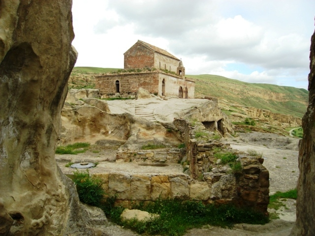 Uplistsikhe, a ruined rock-hewn city of ancient Georgia